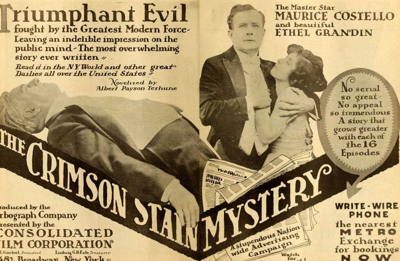 Advertisement in Moving Picture World for the American film serial The Crimson Stain Mystery (1916).